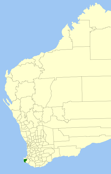 Description=Location of the Local Government Area in Western Australia